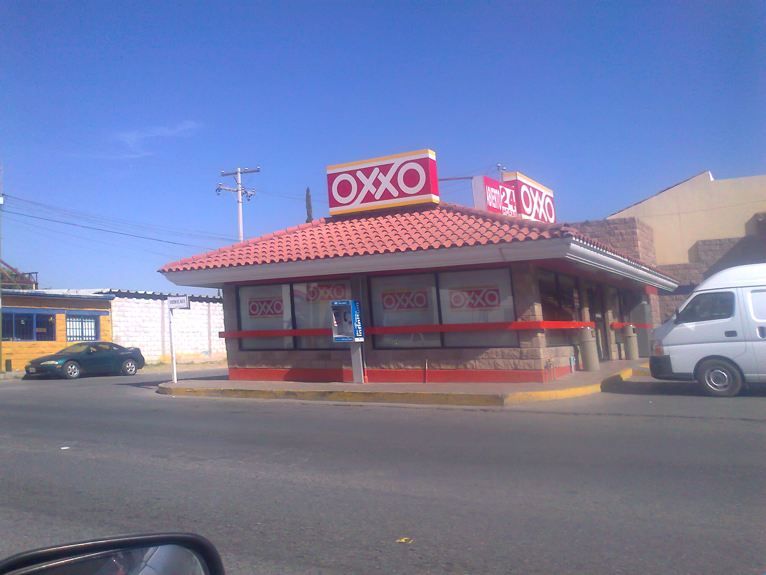 Oxxo store in Paseo del Tecnológico and Vasconcelos Avenue in Torreon, Mexico.